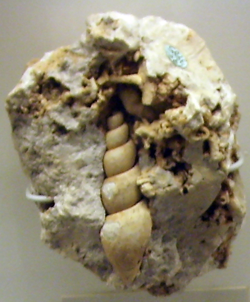 Surcula faxensis fossil at the Geological Museum in Copenhagen; Turris (Surcula) H. Adams & A. Adams, 1853 is a synonym of Turricula Schumacher, 1817